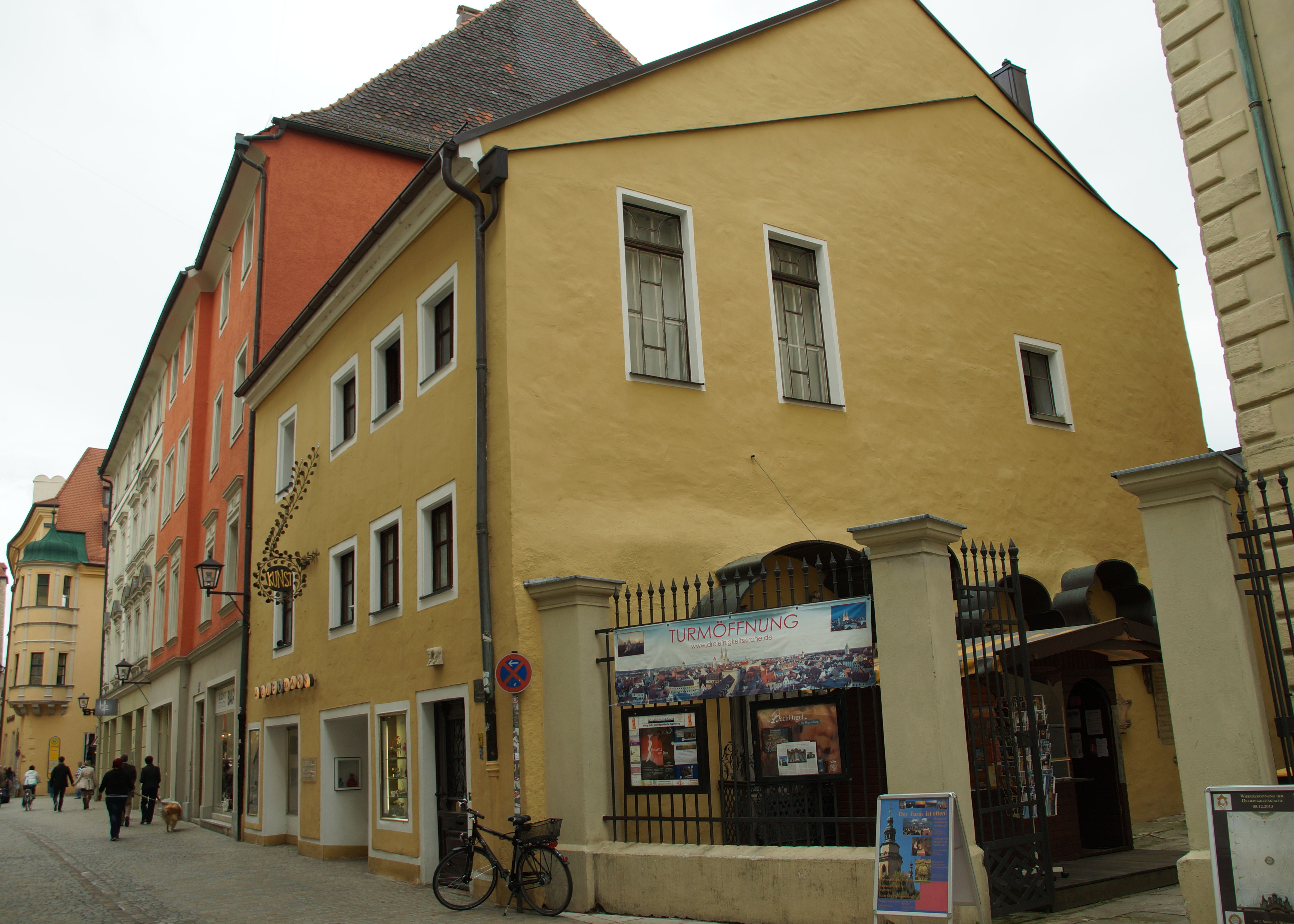 Gesandtenstraße 11, Regensburg, dreigeschossiger und traufständiger Satteldachbau in Ecklage, im Kern gotisch, Umbau 1905.This is a photograph of an architectural monument.